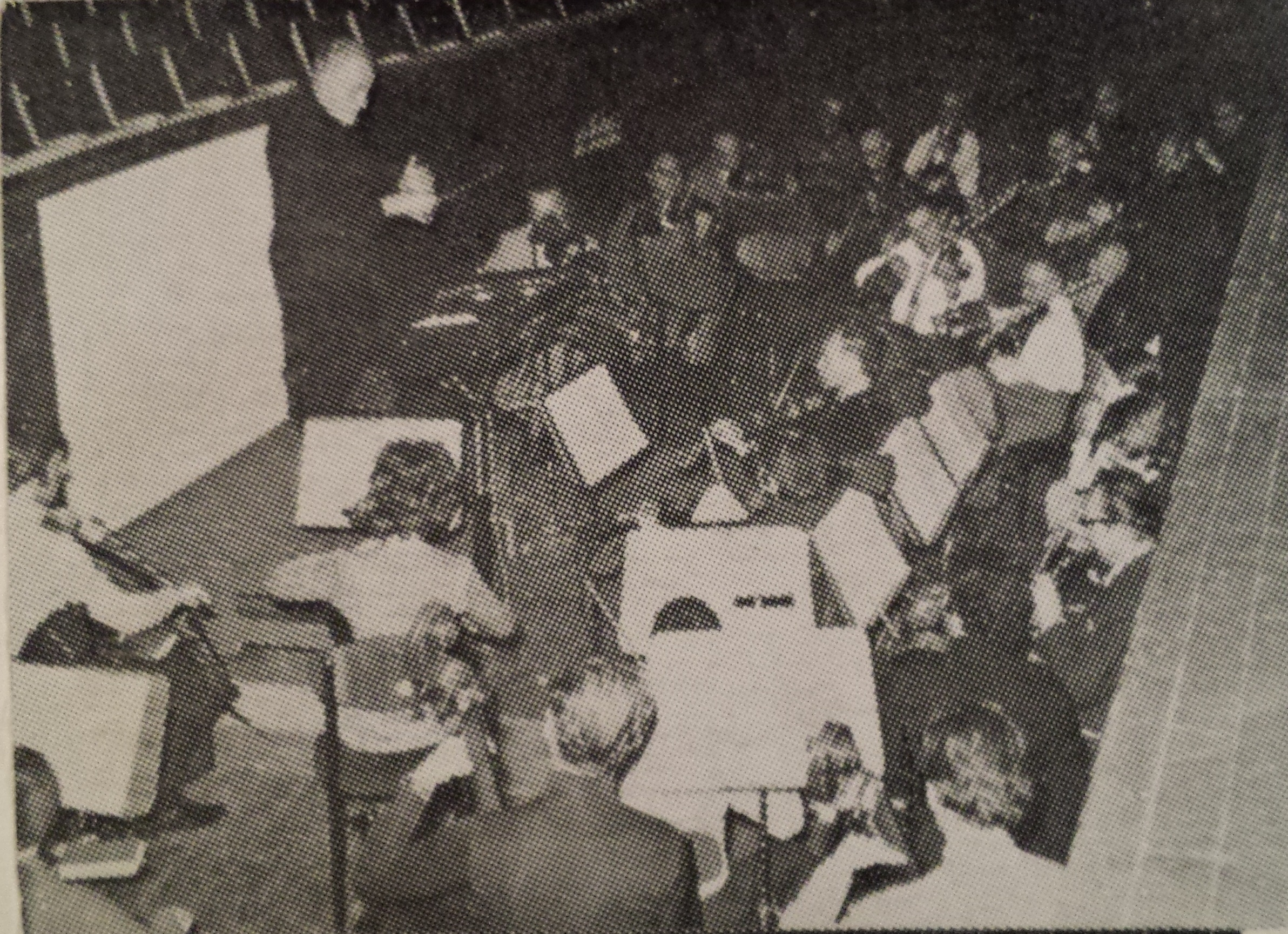 Tehran Opera Orchestra in 1972. Guest conductor: Alberto Erede. The photo has been originally published in the Persian-language monthly Majaleh-ye Musighi (April 1972)